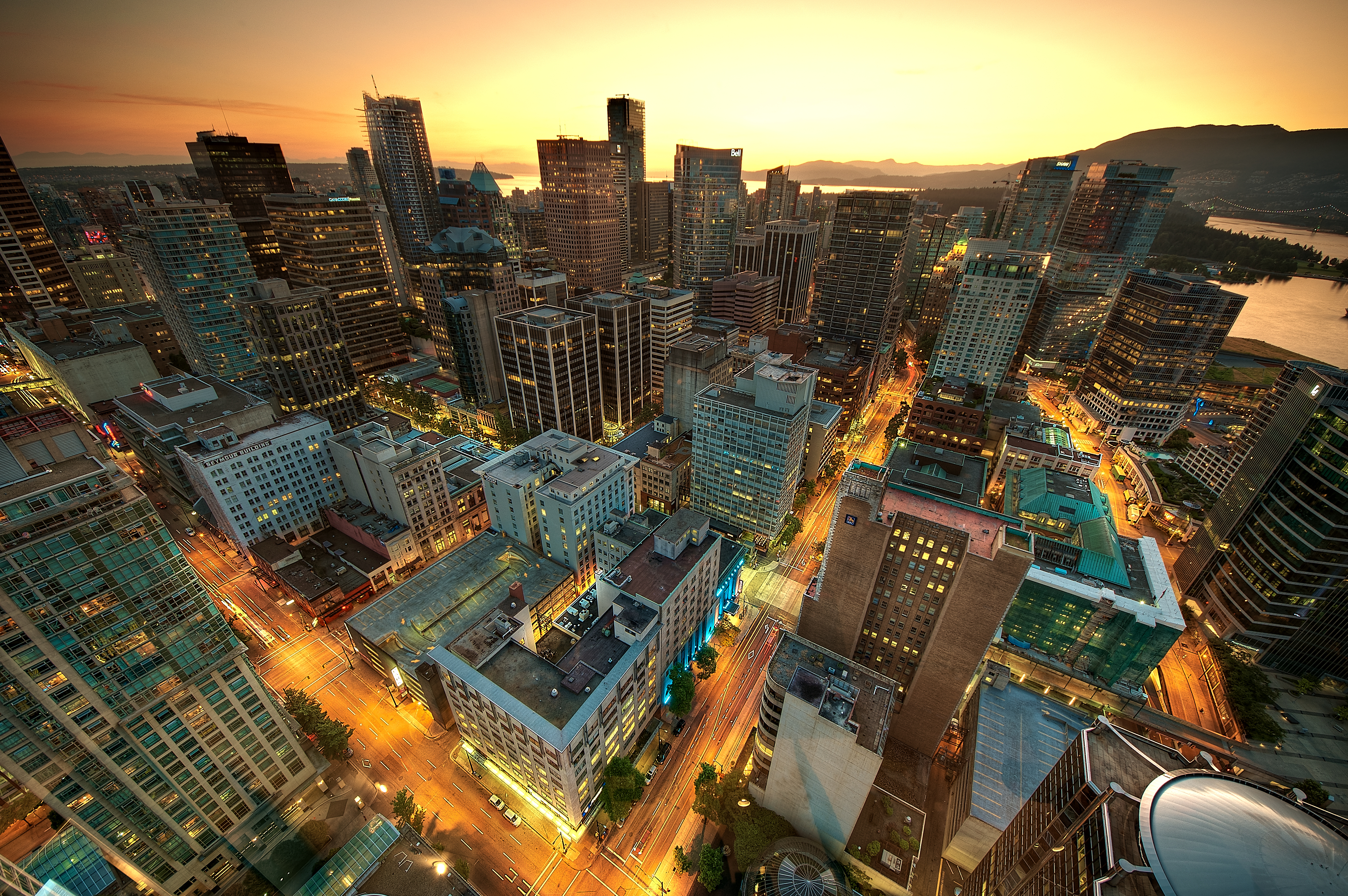 View of downtown Vancouver from the Lookout Tower at Harbour Centre